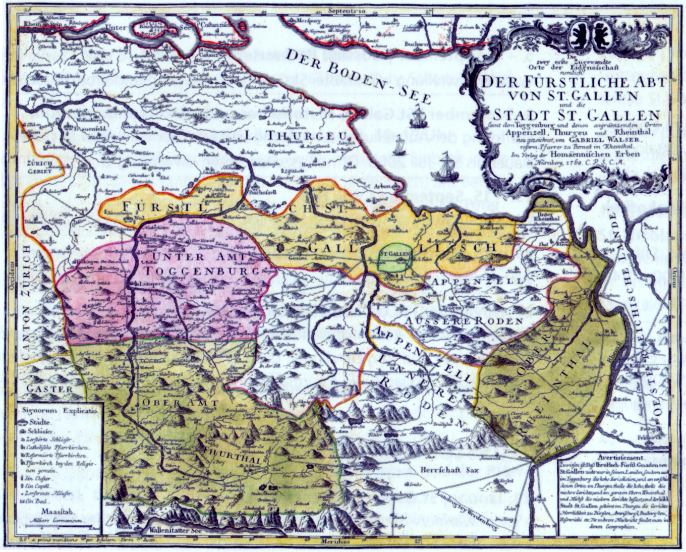 Map of the state of the prince-abbacy of St. Gall and the republic of the city of St. Gallen in Switzerland, 1768